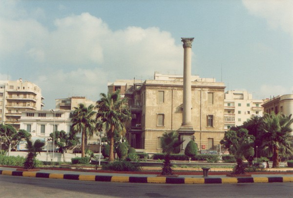 Alexandria, Egypt 1990